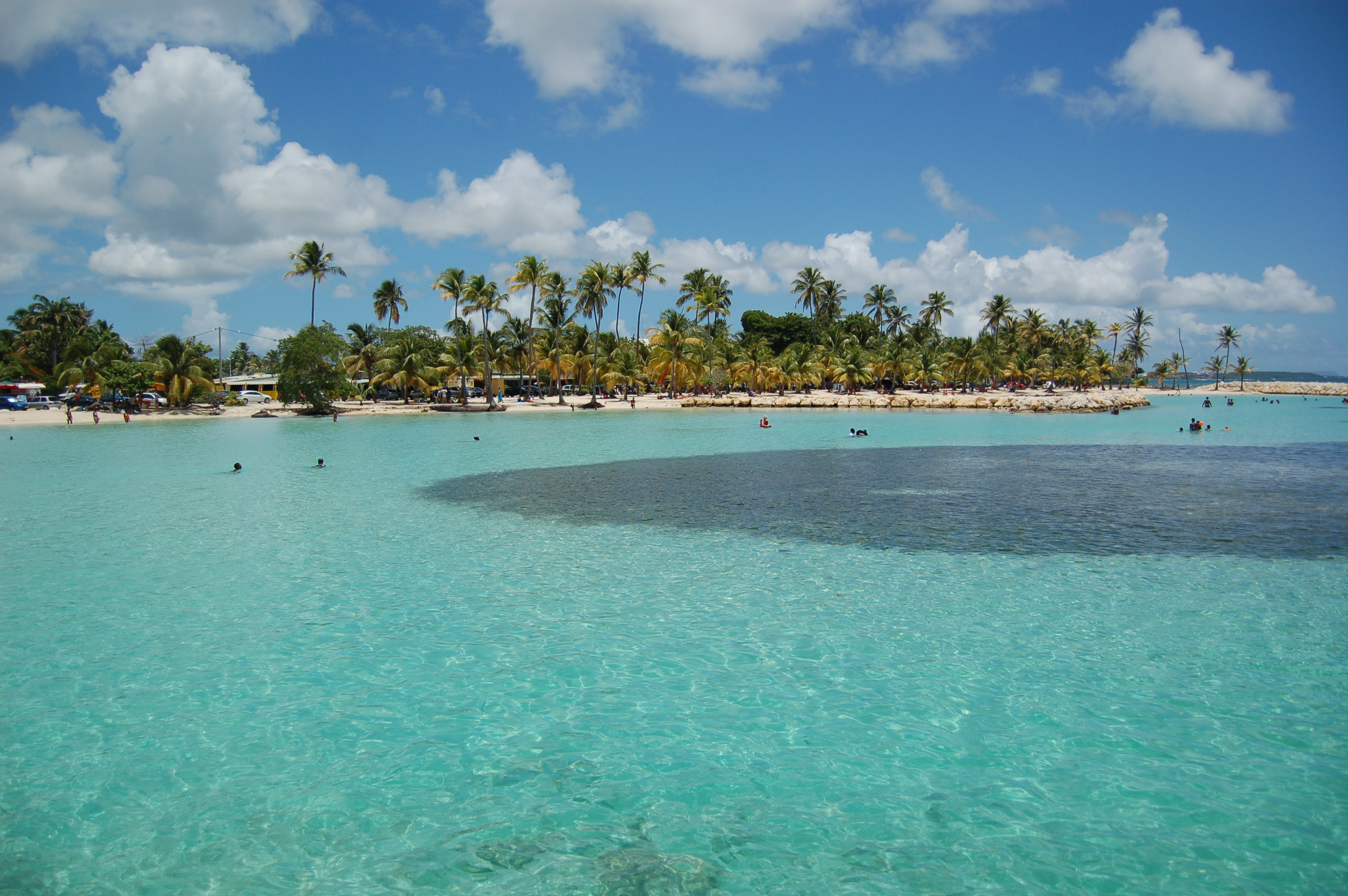 Sainte-Anne Beach, Guadeloupe